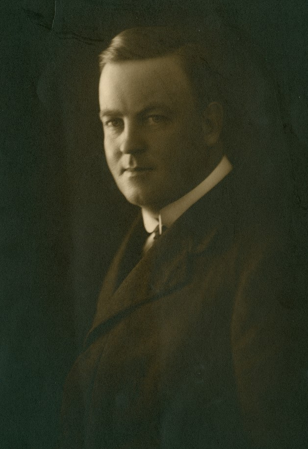 Moodily lit head and upper body portrait of the Professor A.E.V. Richardson